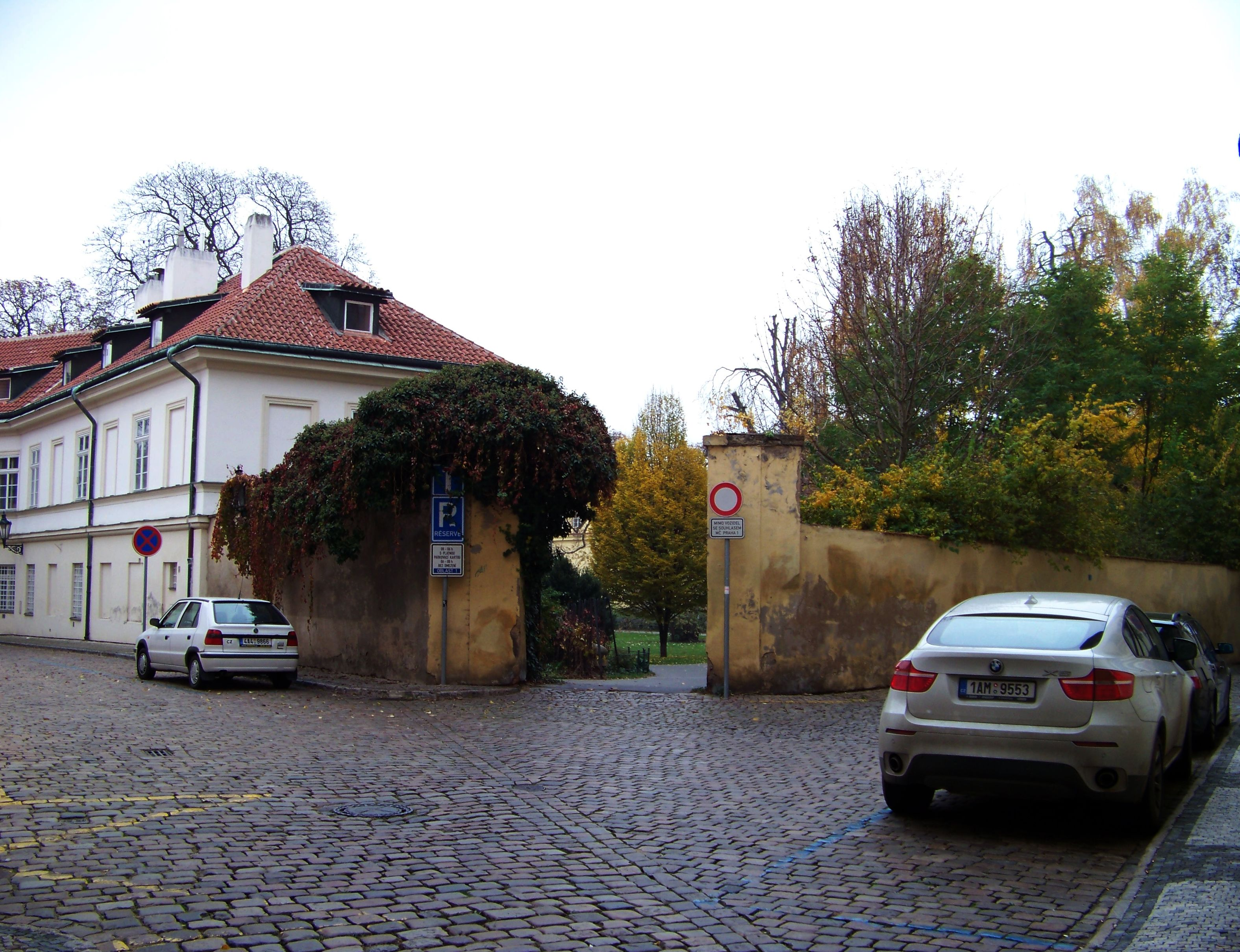 Prague-Malá Strana, the Czech Republic. Nosticova, a garden.